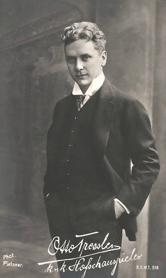 Portrait of German actor Otto Tressler (Otto Treßler; 1871–1965) by Carl Pietzner.